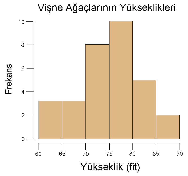 Original work : Mwtoews 01:14, 1 February 2008 (UTC)